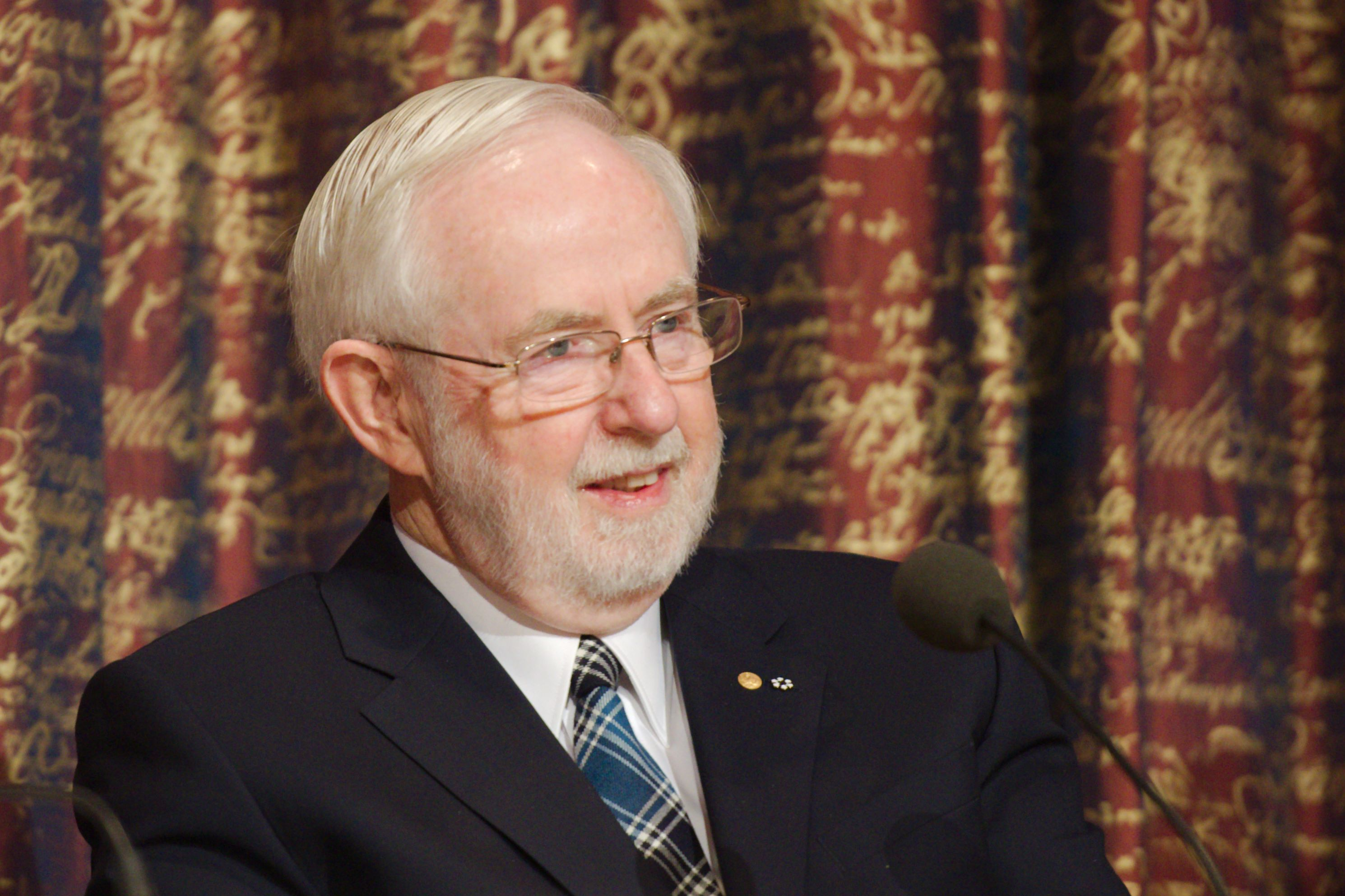 Arthur McDonald at a press conference at the Royal Swedish Academy of Sciences